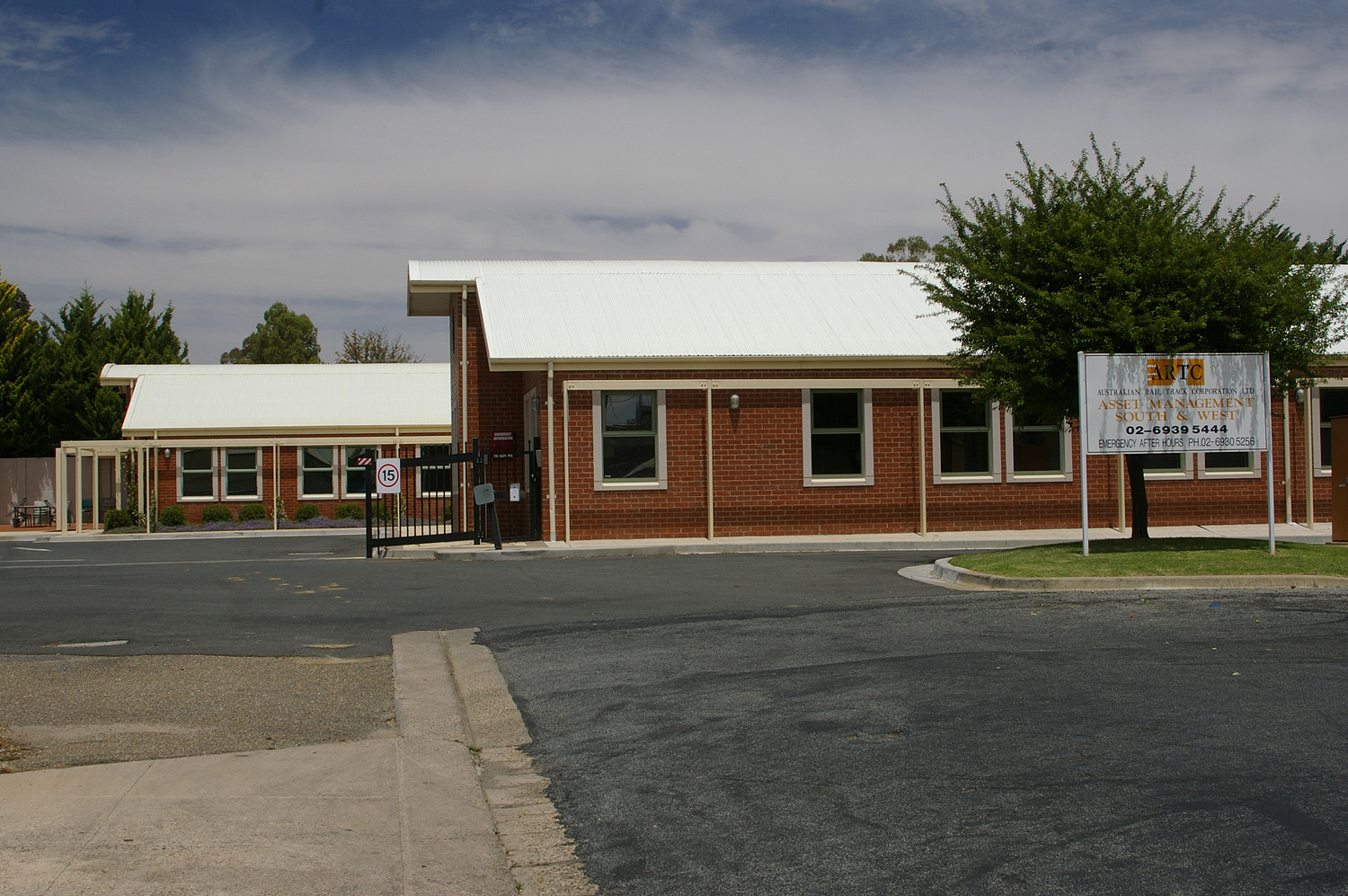 ARTC Asset Management.